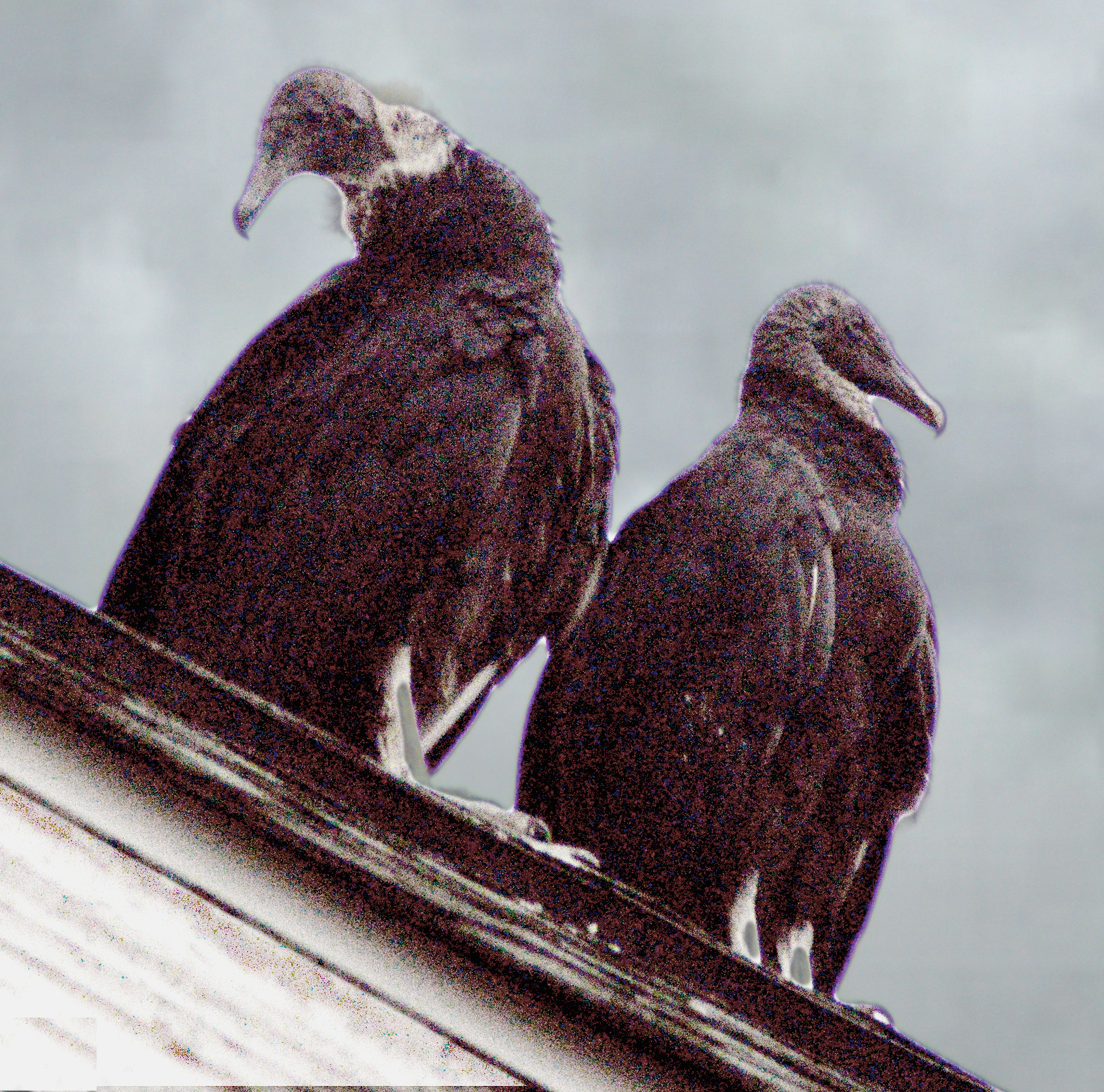 A pair of juvenile American Black Vultures